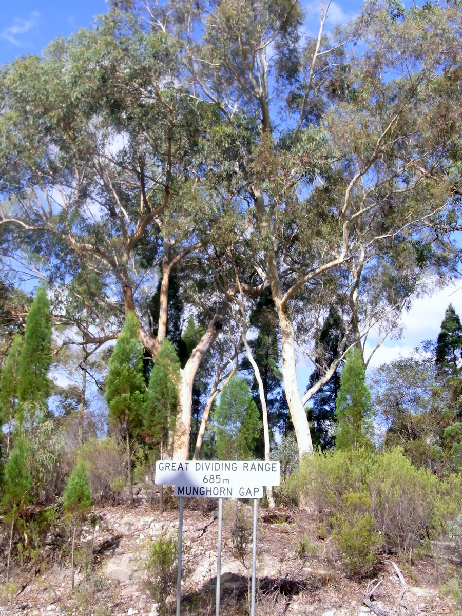 Munghorn Gap Nature Reserve on the Great Dividing Range, Australia. Plants present are Eucalyptus and Callitris Pine